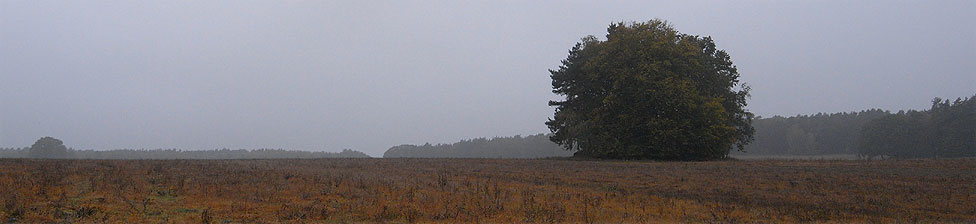 Molmke Steingrab, Chambered Tomb in Saxony-Anhalt 1.4km west of the small village Molmke, south of Diesdorf, not far from Diesdorf Steingrab 3, there is another typical 'Altmark Grossdolmen' with enclosure. And same as the other barrows in the area, the enclosure has two oversized guardian stones in the corners of the south-east end. Unfortunately the NW part of the enclosure is missing. Thats exactly where the comparative well preserved chamber is located. Five capstones are still intact, but have sunken into the chamber. The chamber had (at least) seven uprights on each long side.